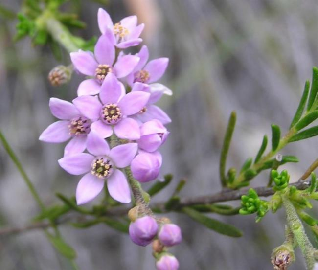 Flowers and foliage of Philotheca spicata